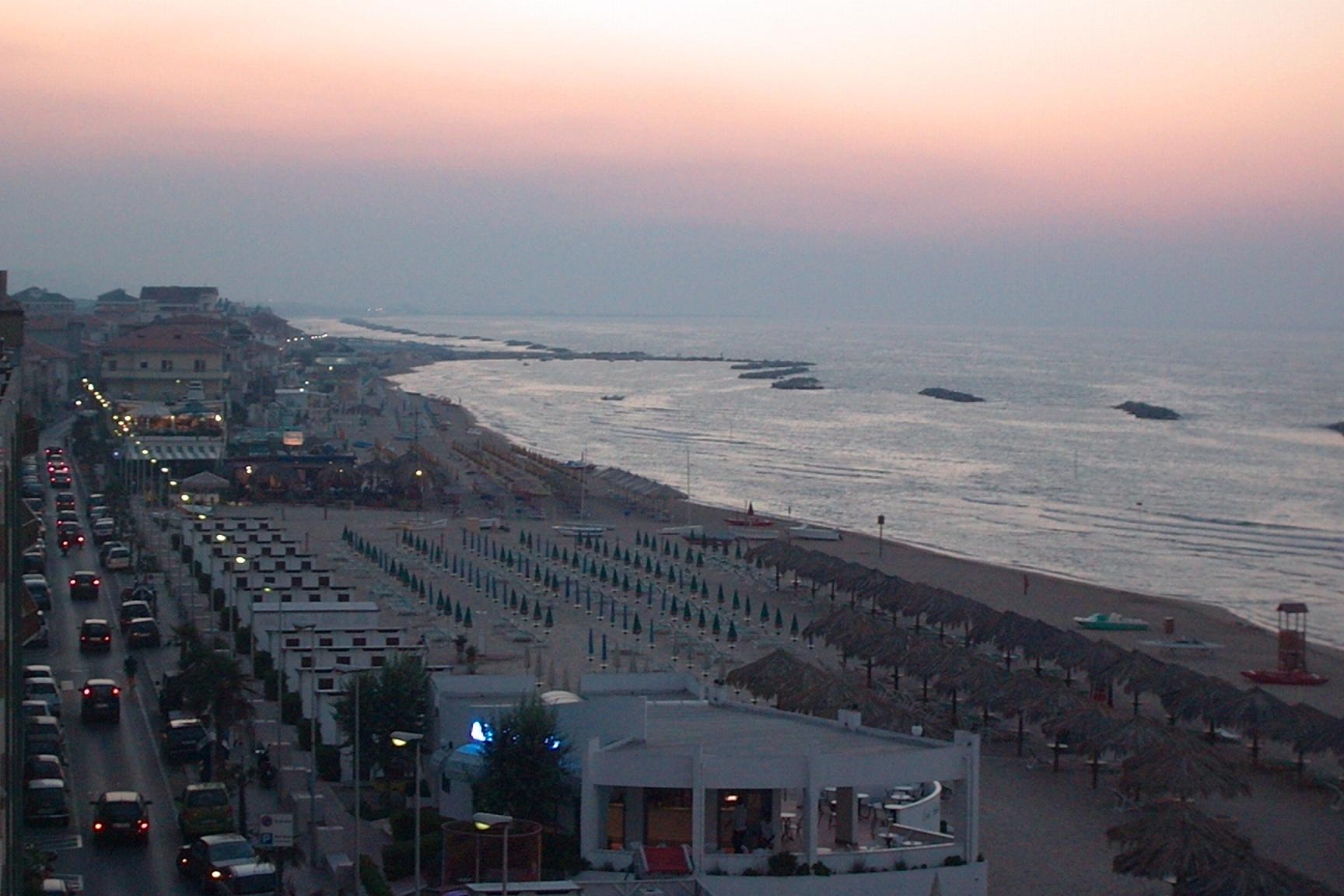 the beach at sunset